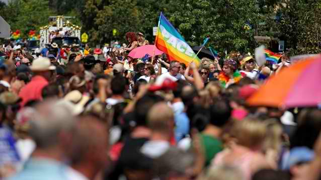 Photo taken at the 2012 Charleston Pride Parade on July 14, 2012 in North Charleston, South Carolina.